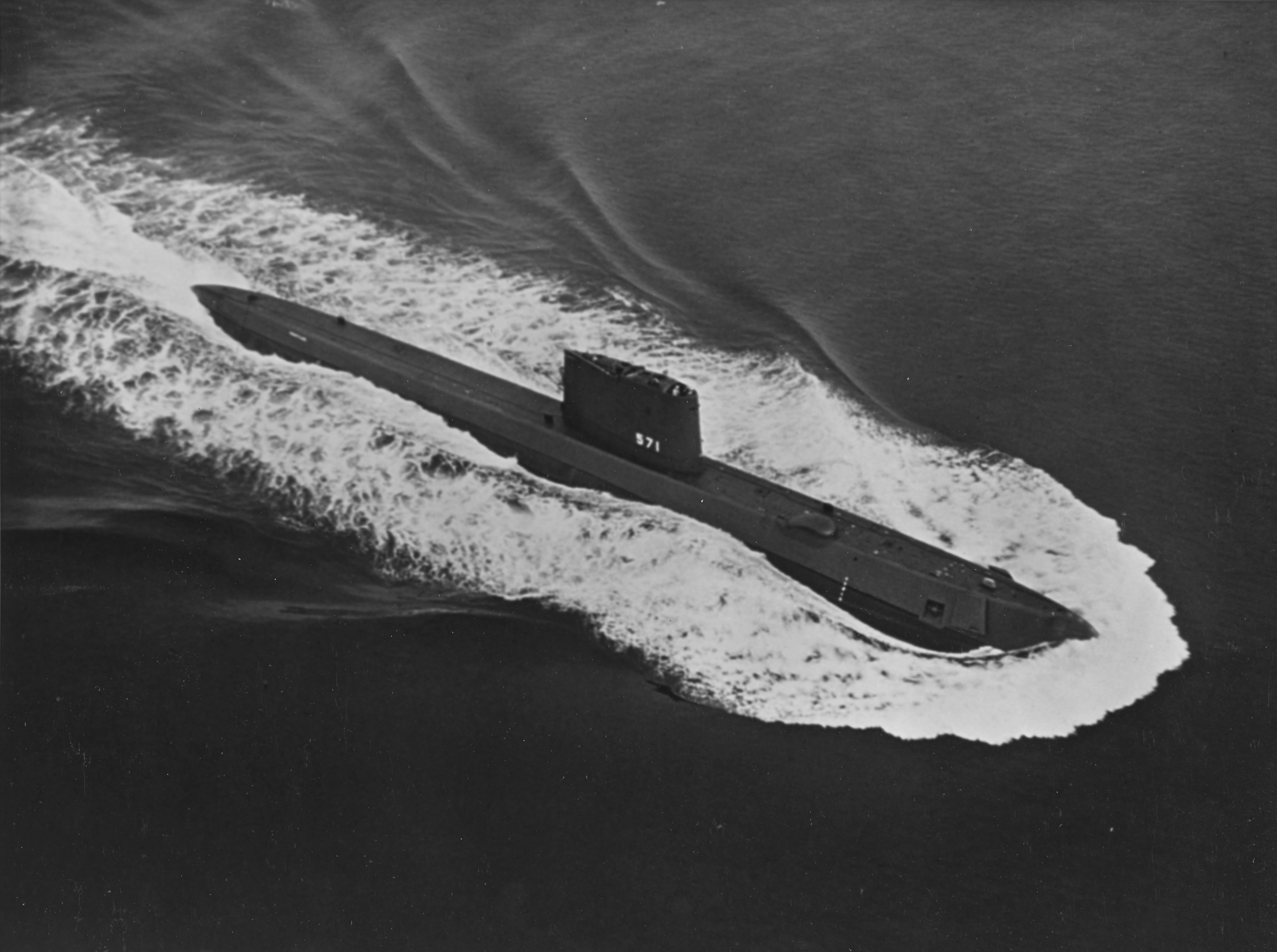 The first U.S. Navy nuclear-powered submarine USS Nautilus (SSN-571) underway at sea in June 1965.